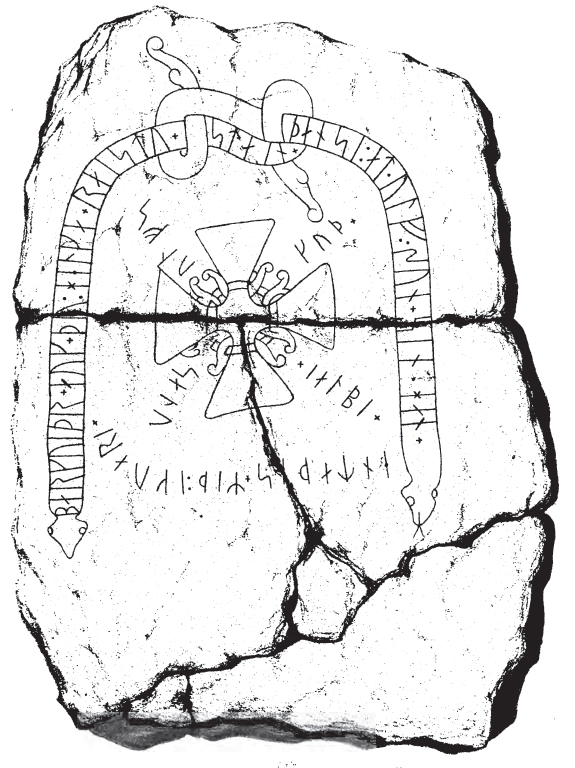 The runestone Sö 9. The inscription reads barkuiþr × auk × þu : helka × raistu × stain × þansi : at * ulf : sun * sint * han × entaþis + miþ : ikuari + kuþ + hialbi + salu ulfs × In English "Bergviðr/Barkviðr and Helga, they raised this stone in memory of Ulfr, their son. He met his end with Ingvarr. May God help Ulfr's soul."